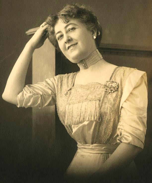 American actress Helen Dunbar - publicity still (cropped)